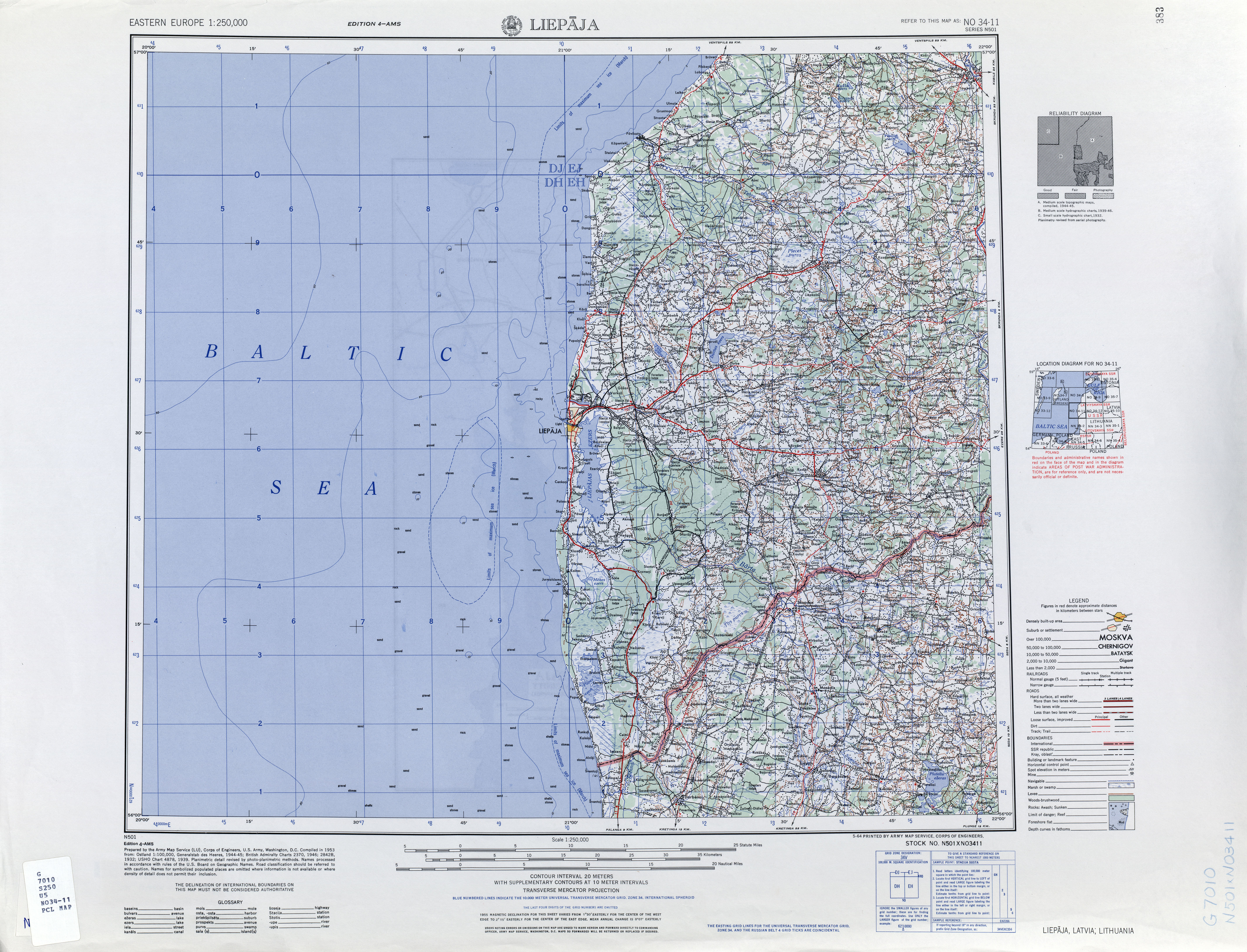 List from Eastern Europe AMS Topographic Maps. Series N501, U.S. Army Map Service, 1954